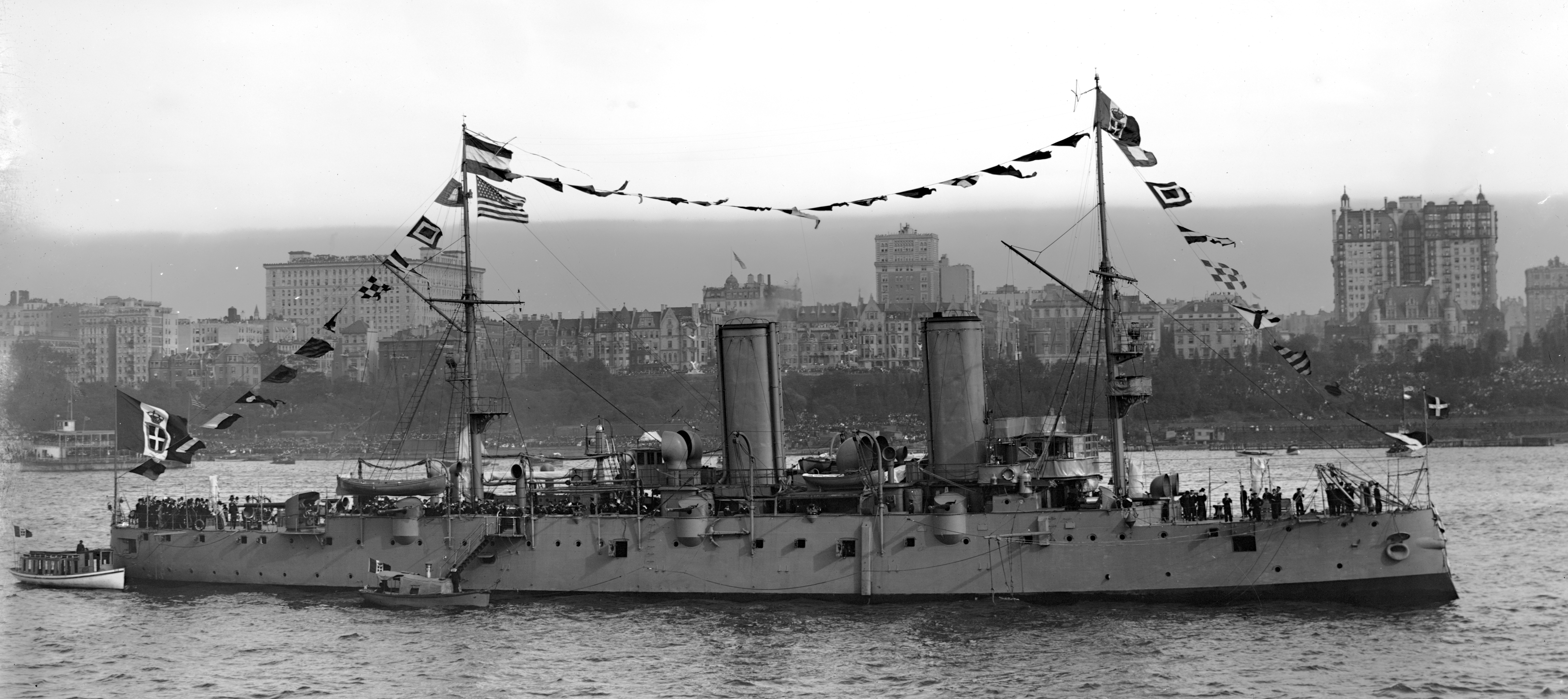 Photograph of Italian cruiser Etruria, at Hudson-Fulton Celebration, New York, 1909.